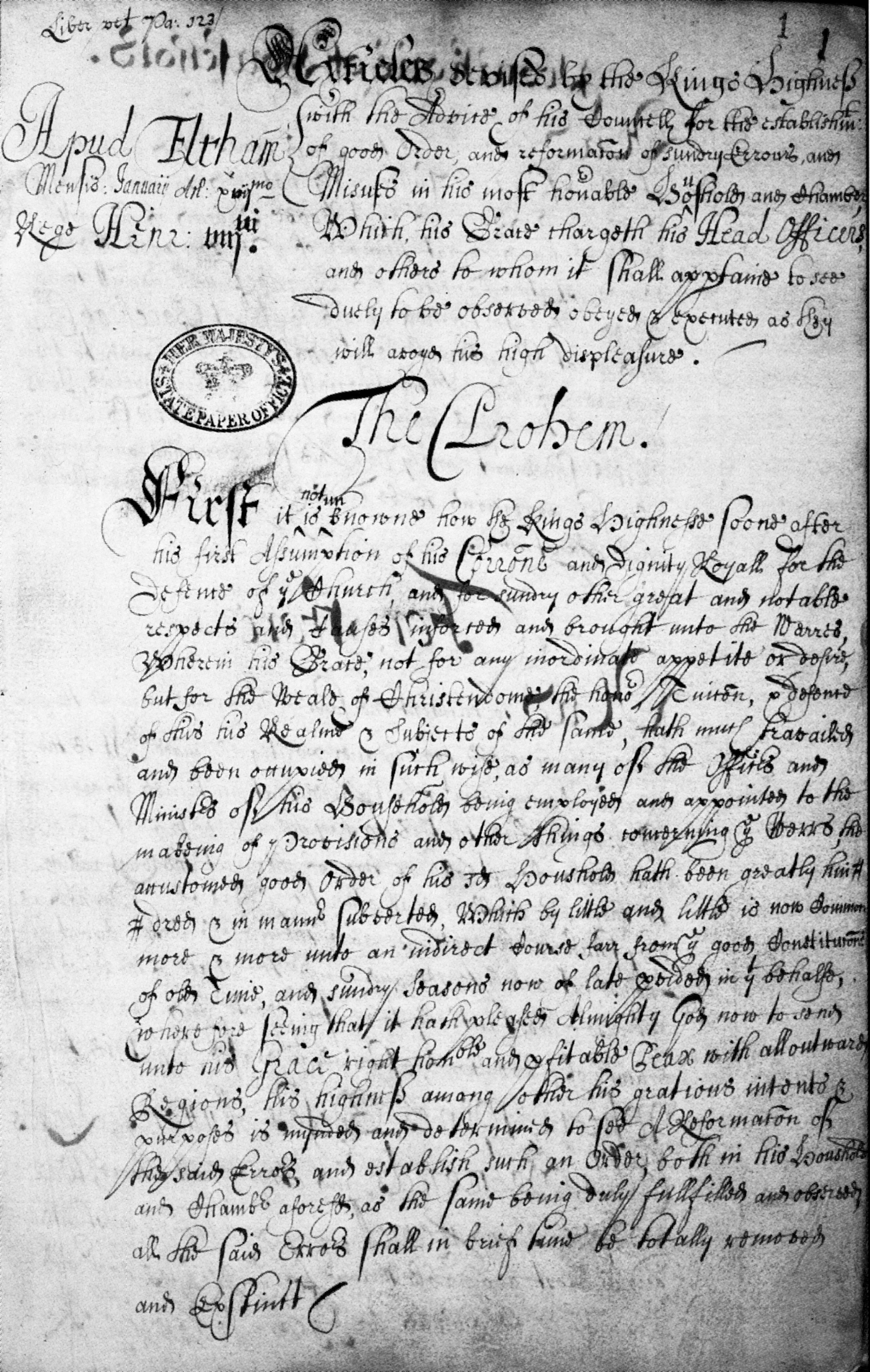 Fol. 1 of "Ordinances for the Household", 1526